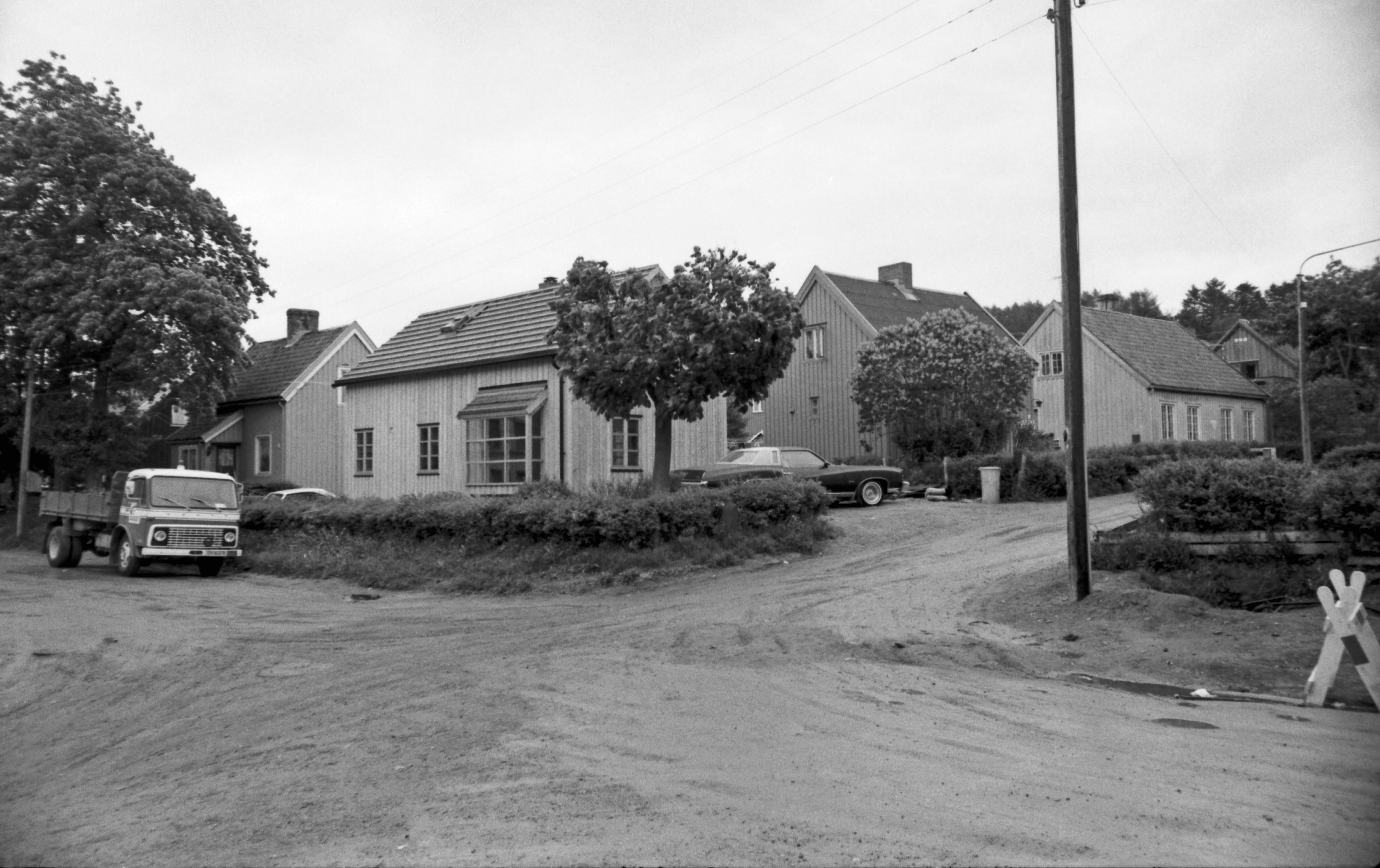 Format: 35 mm sort/hvitt negativ Film: Kodak Safety Film Dato / Date: Juni 1983 Fotograf / Photographer: Byantikvaren Sted / Place: Skansegata 13, Trondheim Google Street View: goo.gl/maps/qH0AM Eier / Owner Institution: Trondheim byarkiv, The Municipal Archives of Trondheim Arkivreferanse / Archive reference: Tor.H43.P2.F7254, film 76 Oppdatert / Update: Sted og biler identifisert av Ivar Stav (23 Mai 2014) Merknad: Fra Byantikvarens negativsamling.